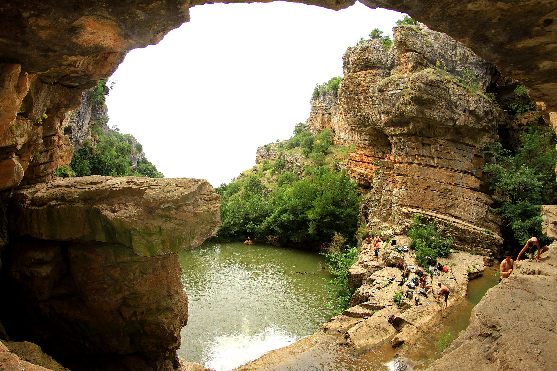 Climbed big rocks to make this picture between the 4th and 5th waterfall of Mirusha